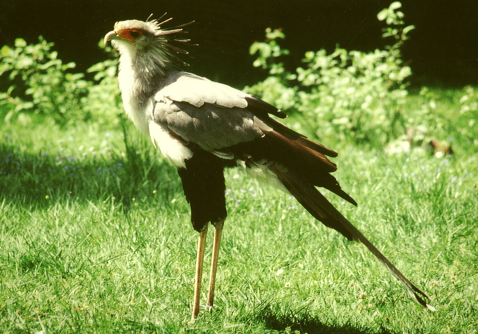 Sekretary bird (Sagittarius serpentarius) at Tiergarten Nürnberg.